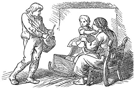 From 'Andersens Sproken en vertellingen' by Hans Christian Andersen, Titia van der Tuuk (ed.) and Simon Jacob Andriessen (trans.). Gebroeders E. & M. Cohen, Nijmegen - Arnhem. Illustrated by Alfred Walter Bayes (1832-1909) and engraved by the Dalziel Brothers (Edward Daziel, 1817-1905; George Daziel, 1815-1902).